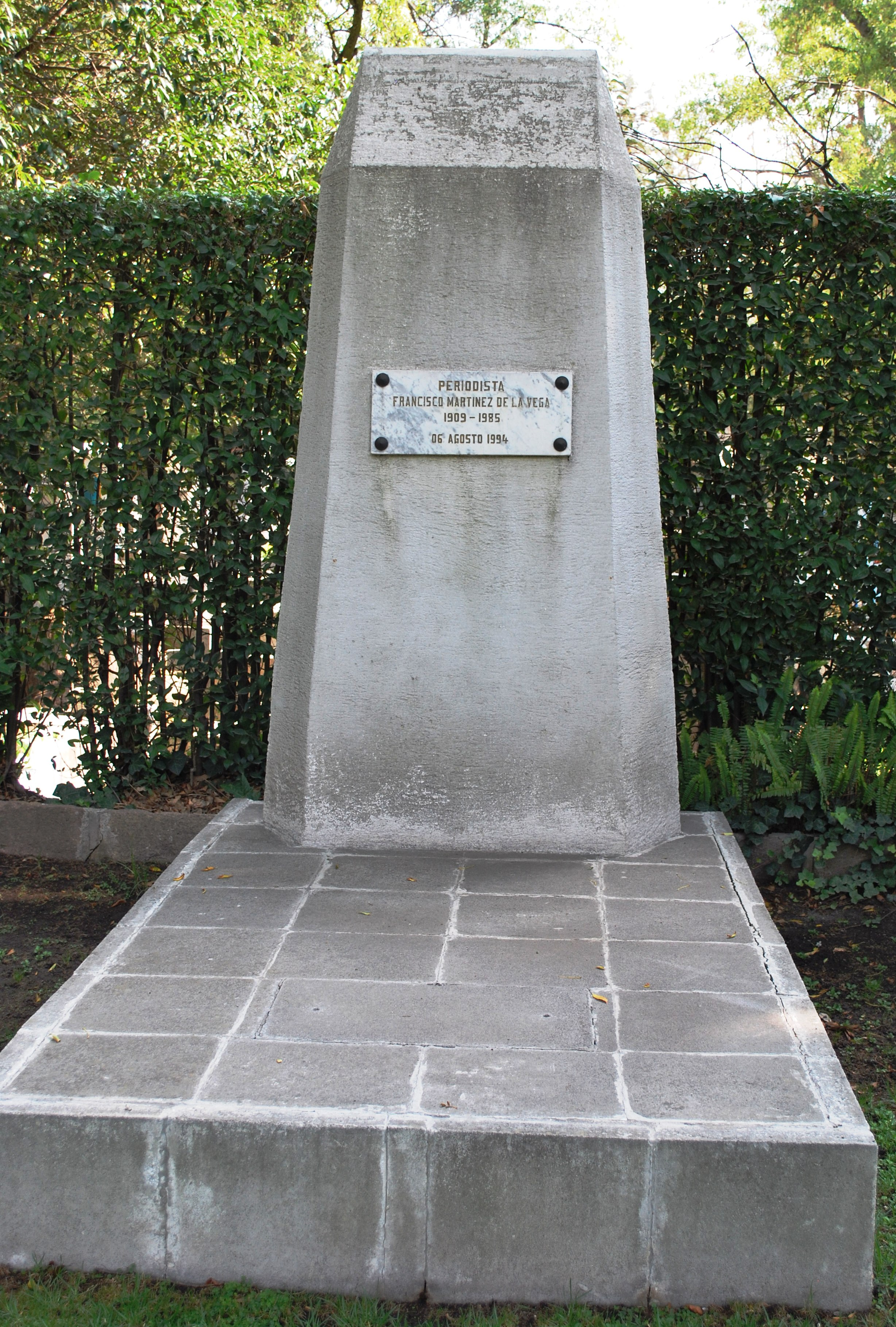 Tomb of Francisco Martinez de la Vega in the Panteon Civil de Dolores cemetery in Mexico City